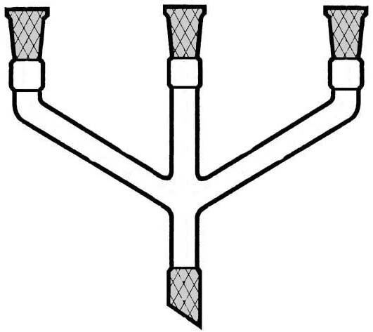 Forshtoss(3) Форштосс трёхрогий